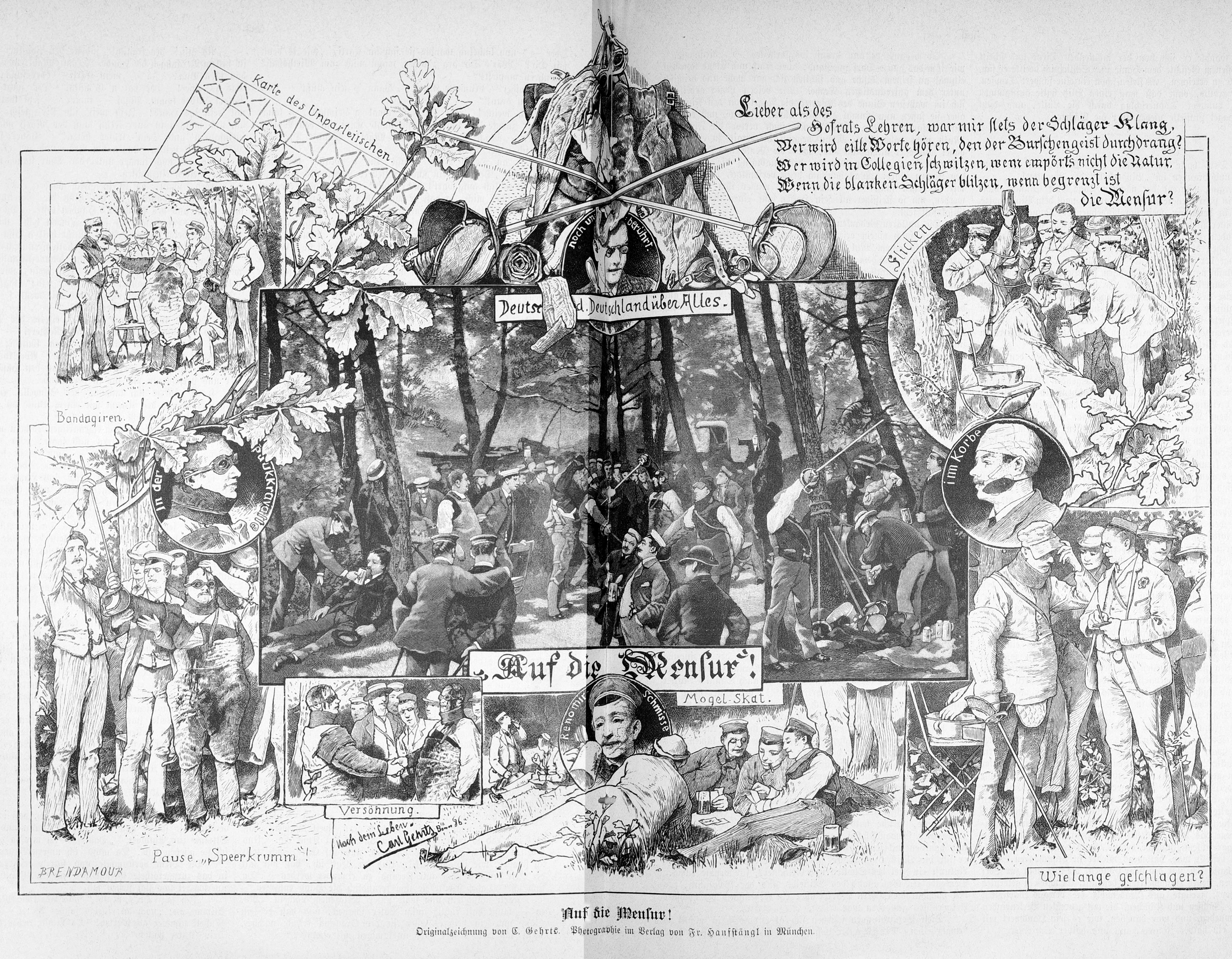 caption: "Auf die Mensur! Originalzeichnung von C. Gehrts. Photographie im Verlag von Fr. Hanfstängl in München."